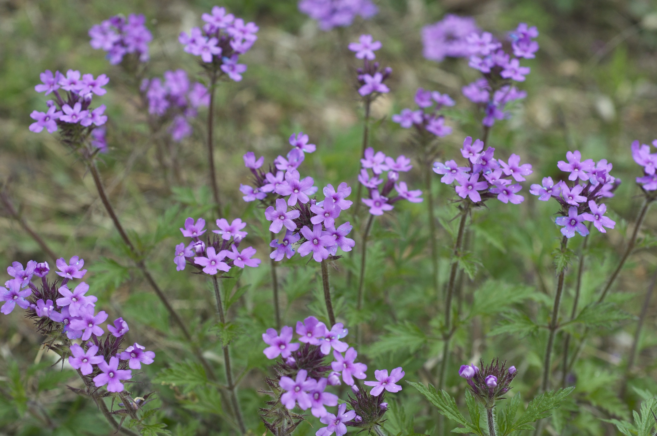 Species from eastern North America Common name: Rose mock vervain Photographed in Leatherwood Lake Park, Eureka Springs, Arkansas